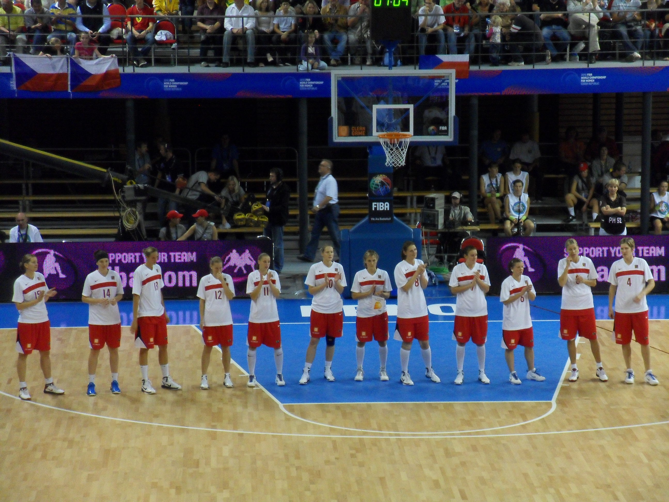 Japan - Czech Republic match at 2010 FIBA World Championship for Women, Brno, Czech Republic